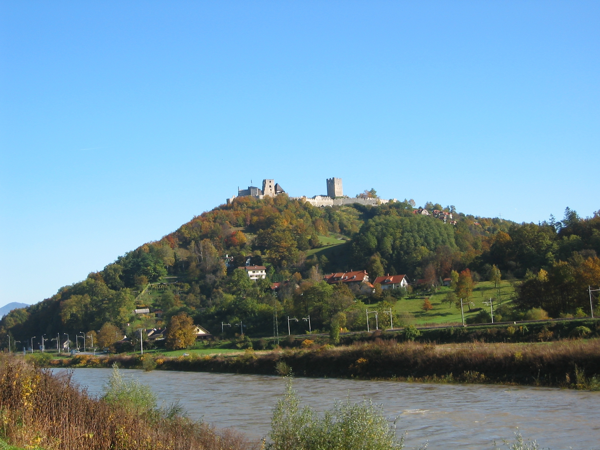 The Celje Upper Castle, viewed from the banks of river Savinja in the vicinity of Pečovnik toward northeast. Photo Andrejj 2004.